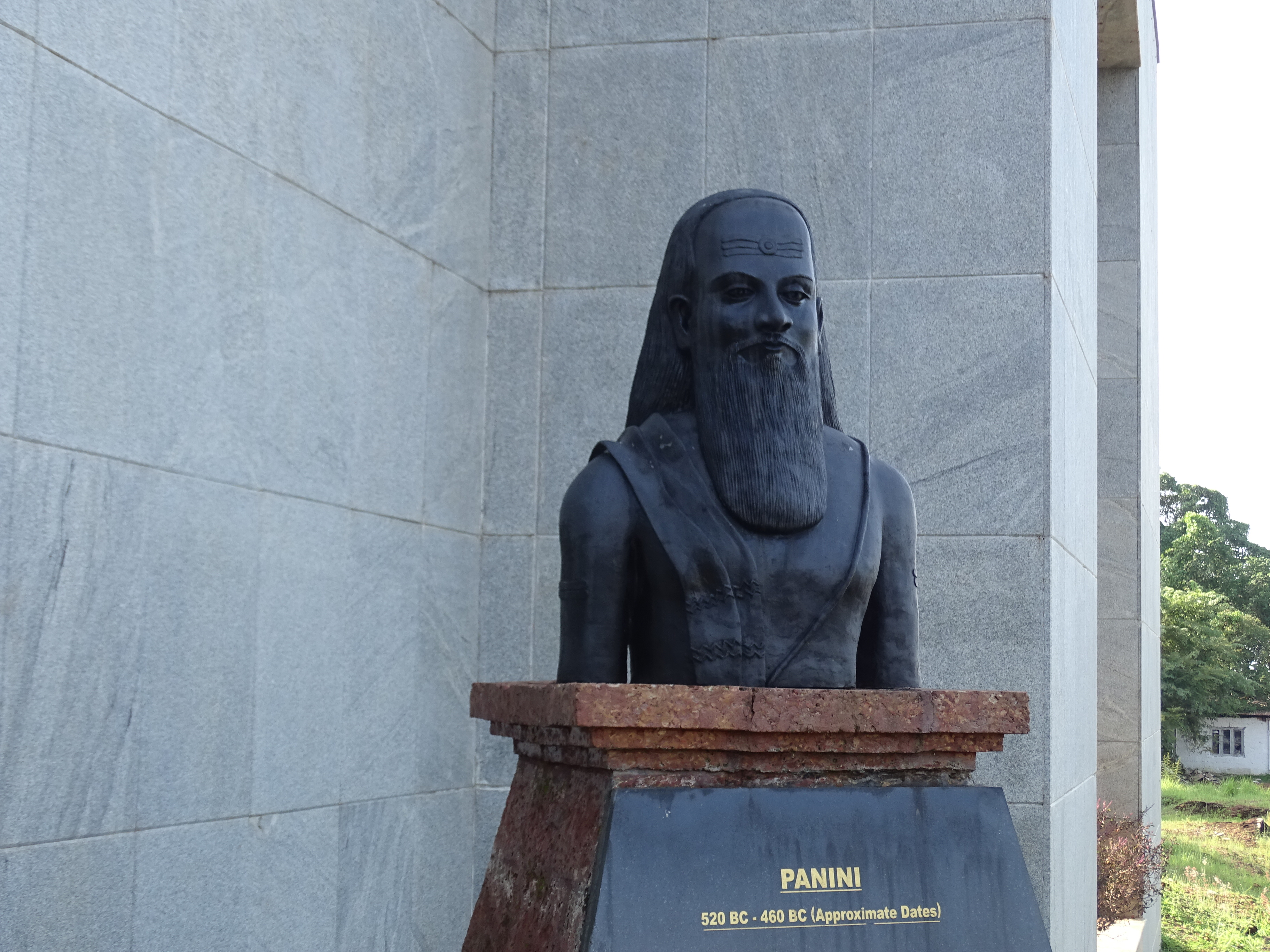 Panini